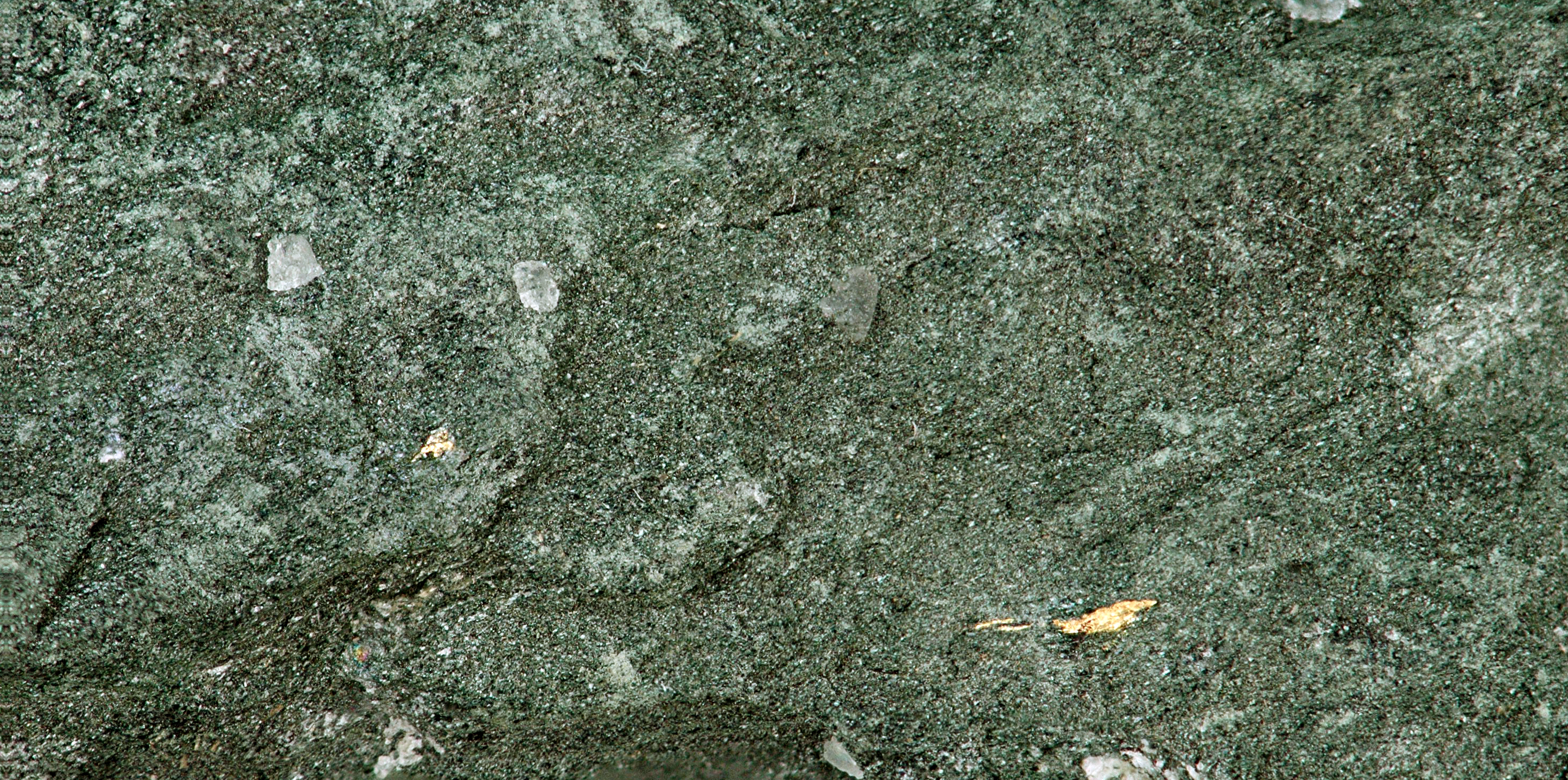 Auriferous greenschist (field of view ~3.0 cm across) from the Homestake Mine, town of Lead, northern Black Hills, western South Dakota, USA. Some small blebs of native gold (Au) are visible. The largest gold mine in the Americas was the long-lived Homestake Mine in the town of Lead (pronounced “Leed”), South Dakota, USA. Located in the Lead Window of the northern Black Hills Uplift in western South Dakota, the Homestake Mine produced about 40 million ounces of gold. The gold at Homestake is almost exclusively confined to the Homestake Formation, a Paleoproterozoic (~1.9-2.0 billion years) sedimentary unit that originally consisted of interbedded Mg-rich siderite iron formation and marlstones. The Homestake Formation has been strongly deformed & multiply metamorphosed, and many of the original rocks were converted to greenschists (cummingtonite schists). The gold has been interpreted as having been originally deposited with the iron formation sediments by seafloor volcanogenic exahalative processes. Slight metamorphic gold mobilization and tight structural folding has resulted in the formation of auriferous greenschist pods along fold axes.